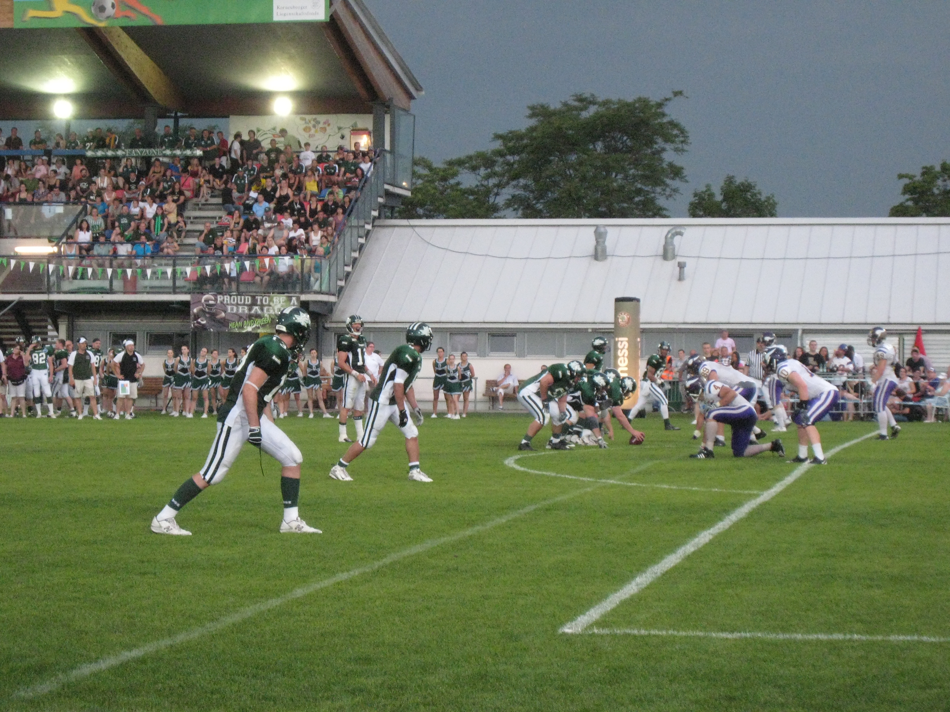 Austrian Football League regular season game @Danube Dragons vs. Raiffeisen Vikings Vienna, Korneuburg, Rattenfängerstadium